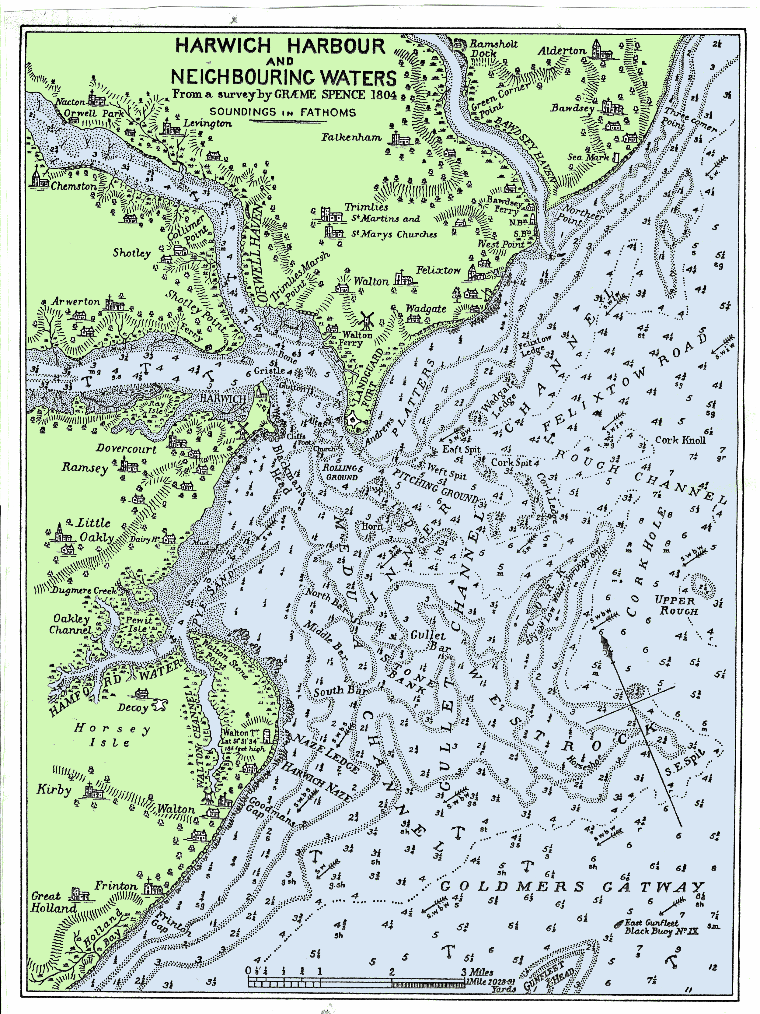 This is a chart of the approaches to Harwich and Felixstowe that was first published in 1804. This version is from a book: Orwell Estuary, the story of Ipswich River by W.G.Arnott. The sea and the land have been coloured to make the chart easier to read.